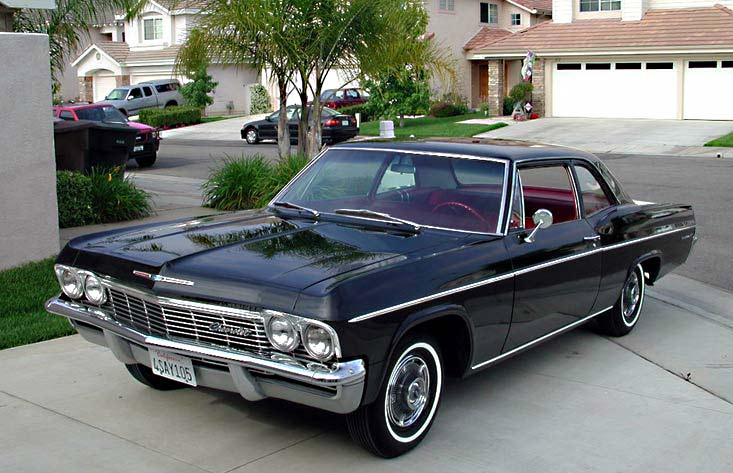 1965 Chevrolet Bel Air 2 dr. Sedan.